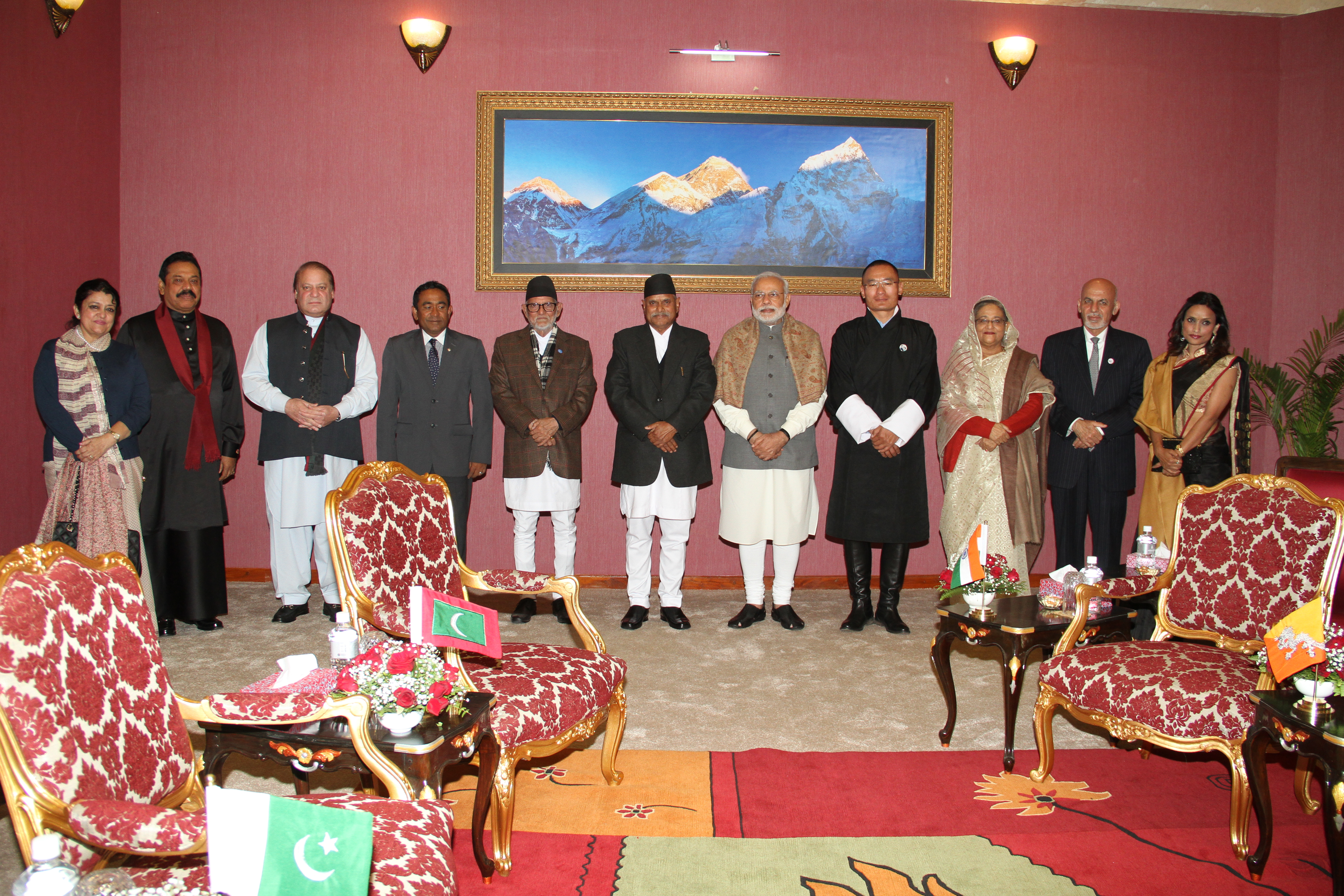 Saarc21014_1